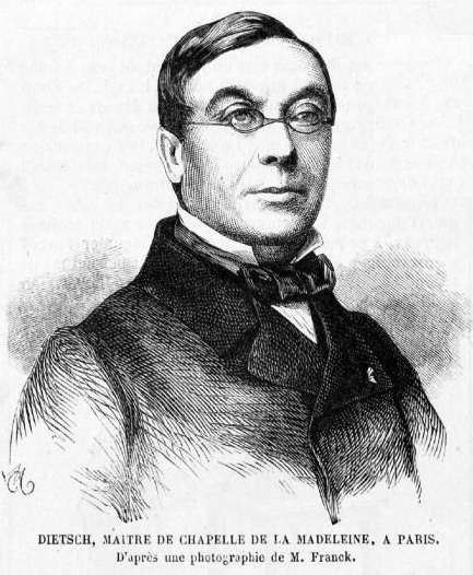 Portrait of Louis Dietsch (1808–1865), a French composer and conductor. Engraving by M. C. after a photograph by Franck.